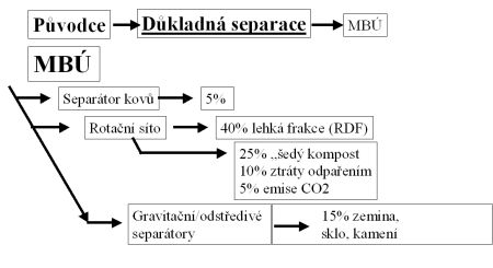 Diagram of mechanically-biologically arrangement with Czech description